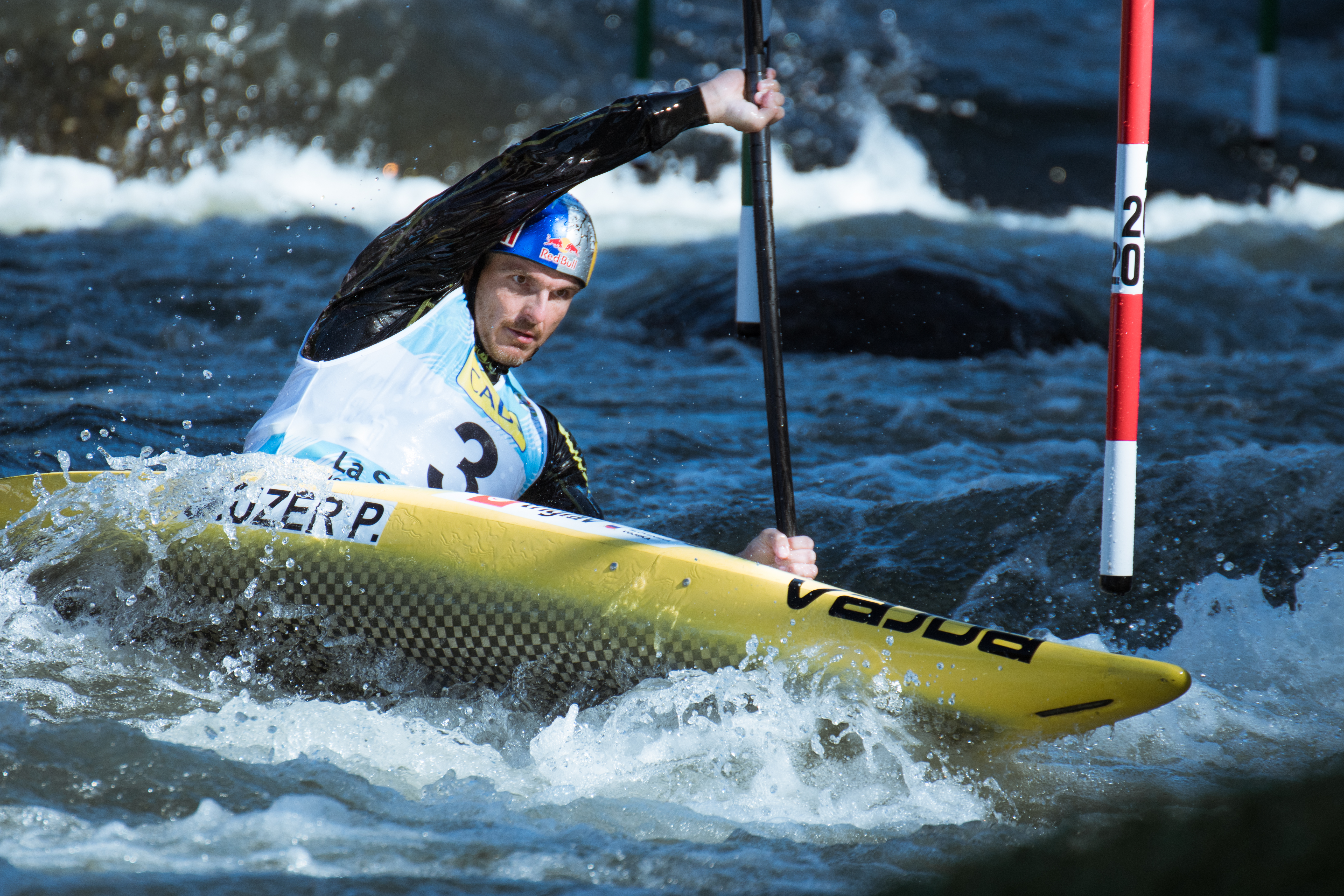 Peter Kauzer during the 2019 Canoe Slalom World Championships in La Seu d'Urgell, Spain.